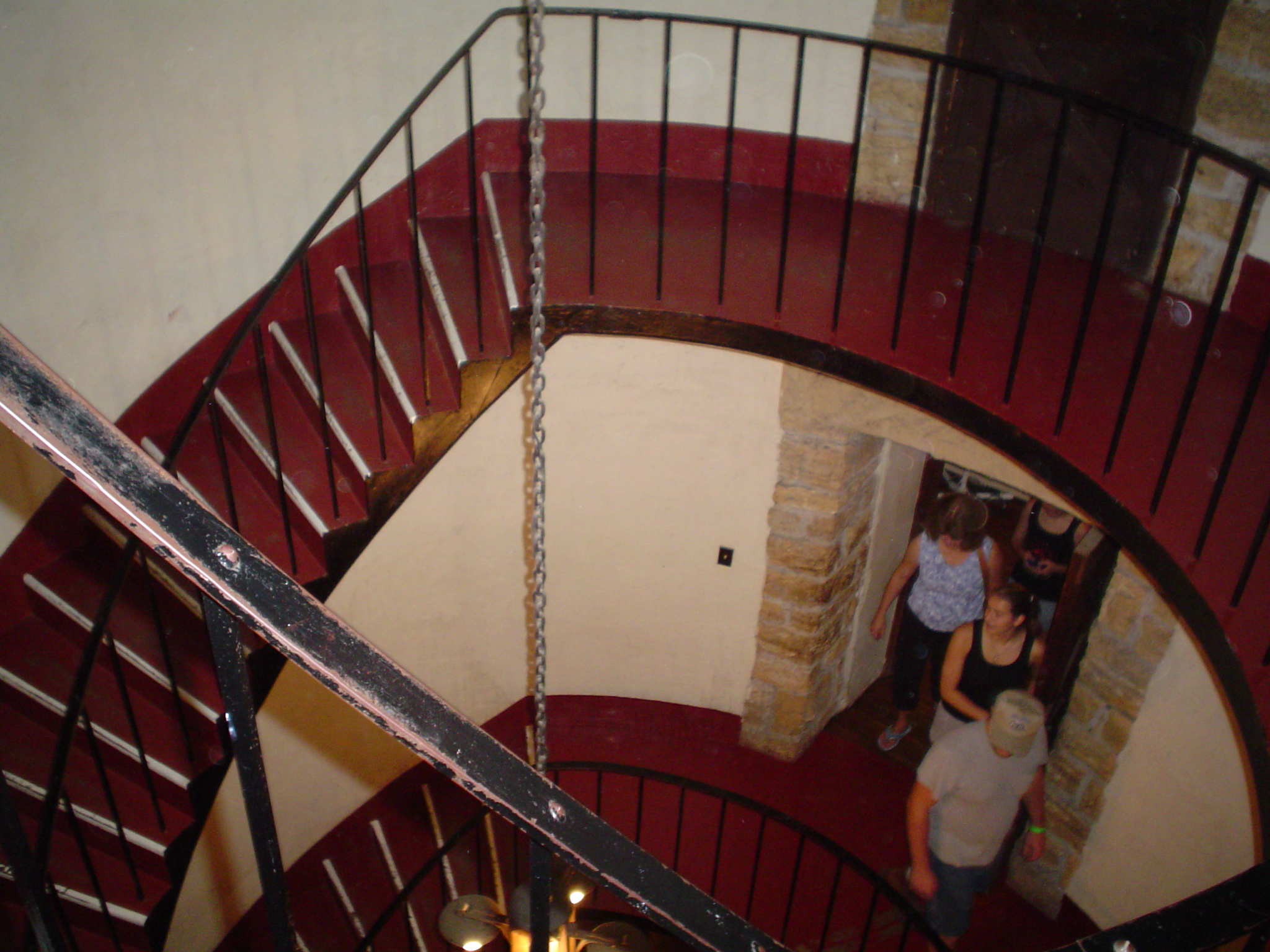 A stairwell of Stronghold Castle, Oregon, Illinois, USA.